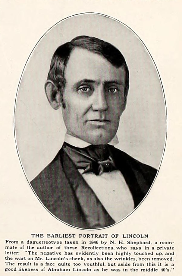 Abraham Lincoln, Congressman-elect from Illinois.